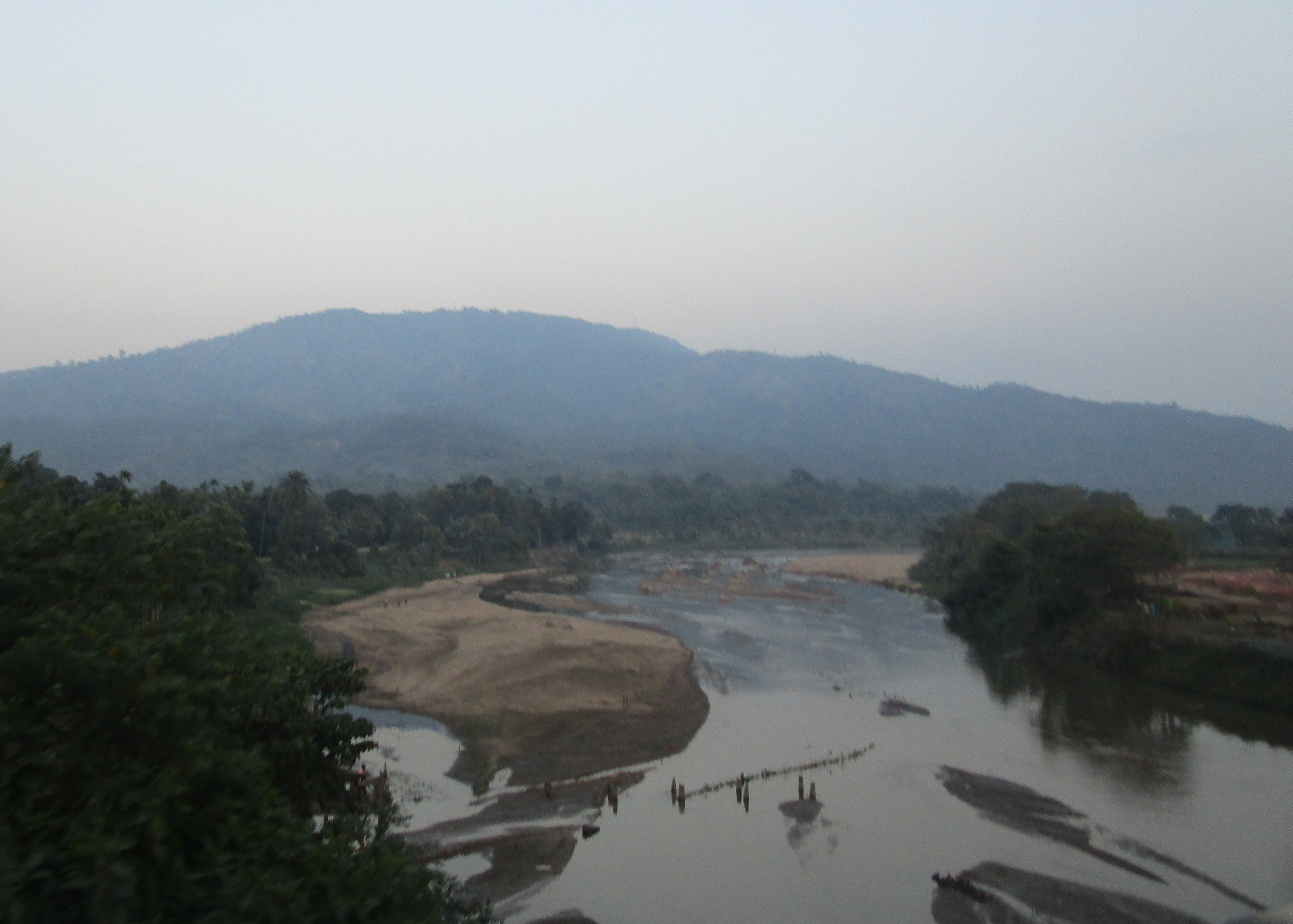 Ganol River, Image taken at Tura-Ampati road, Bisindagre, West Garo Hills, Meghalaya.